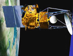 The Coriolis satellite will demonstrate the ability to measure wind speed and direction on the world's oceans.